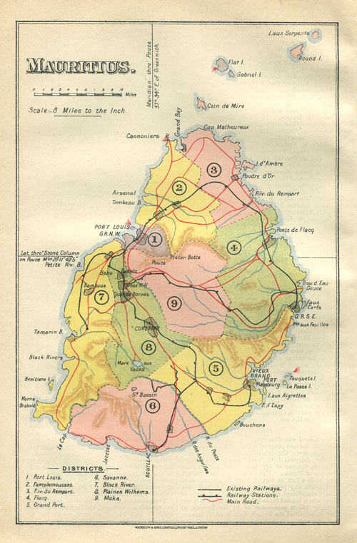 Small coloured map of Mauritius showing roads and railways, printed by Waterlow & Sons, London, 1910.